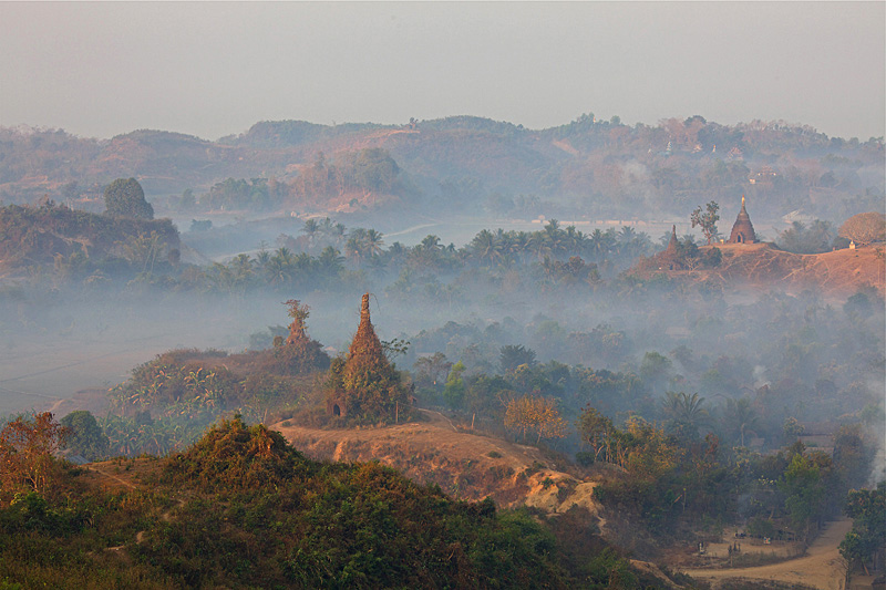 View on Mrauk U right after sunrise from Shwetaung pagoda.